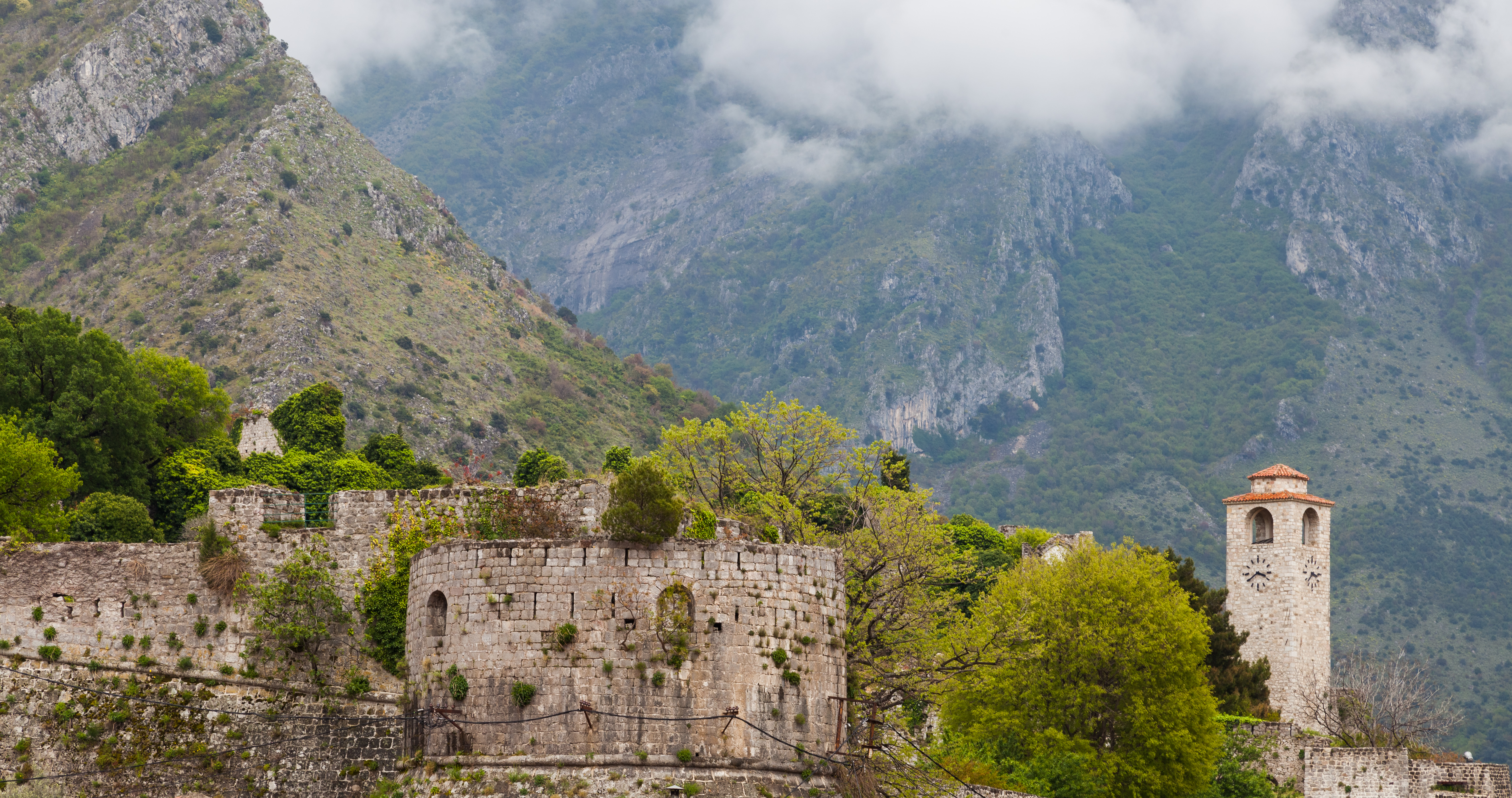 Stari Bar, Montenegro